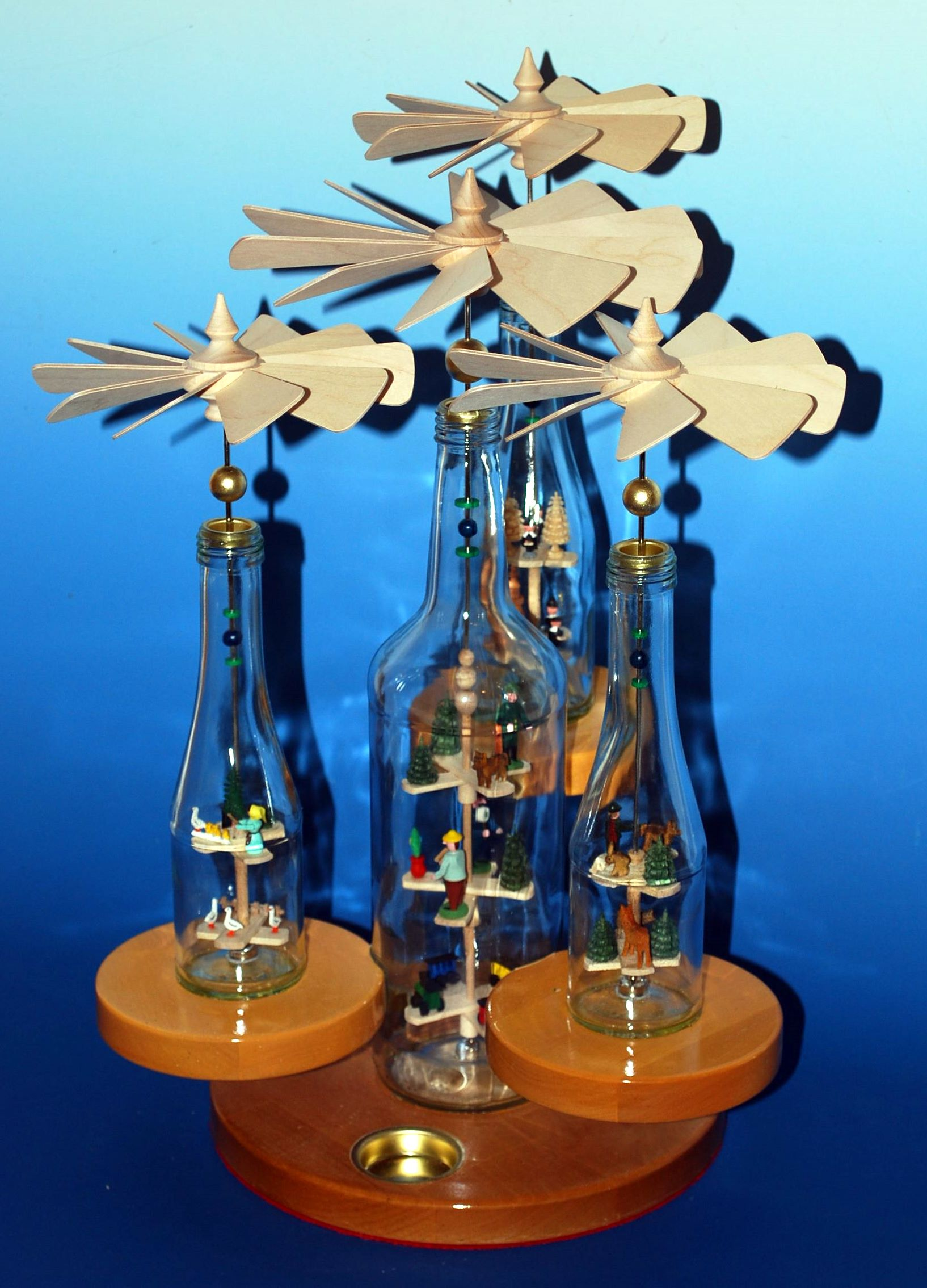 A Crystallpyramide from Erzgebirge/Germany.